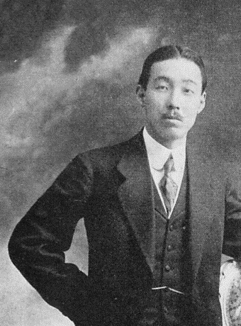 Koretsune Kamei